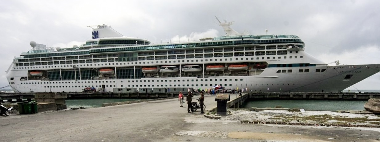 Legend Of The Seas tied up at Danang, Vietnam port.